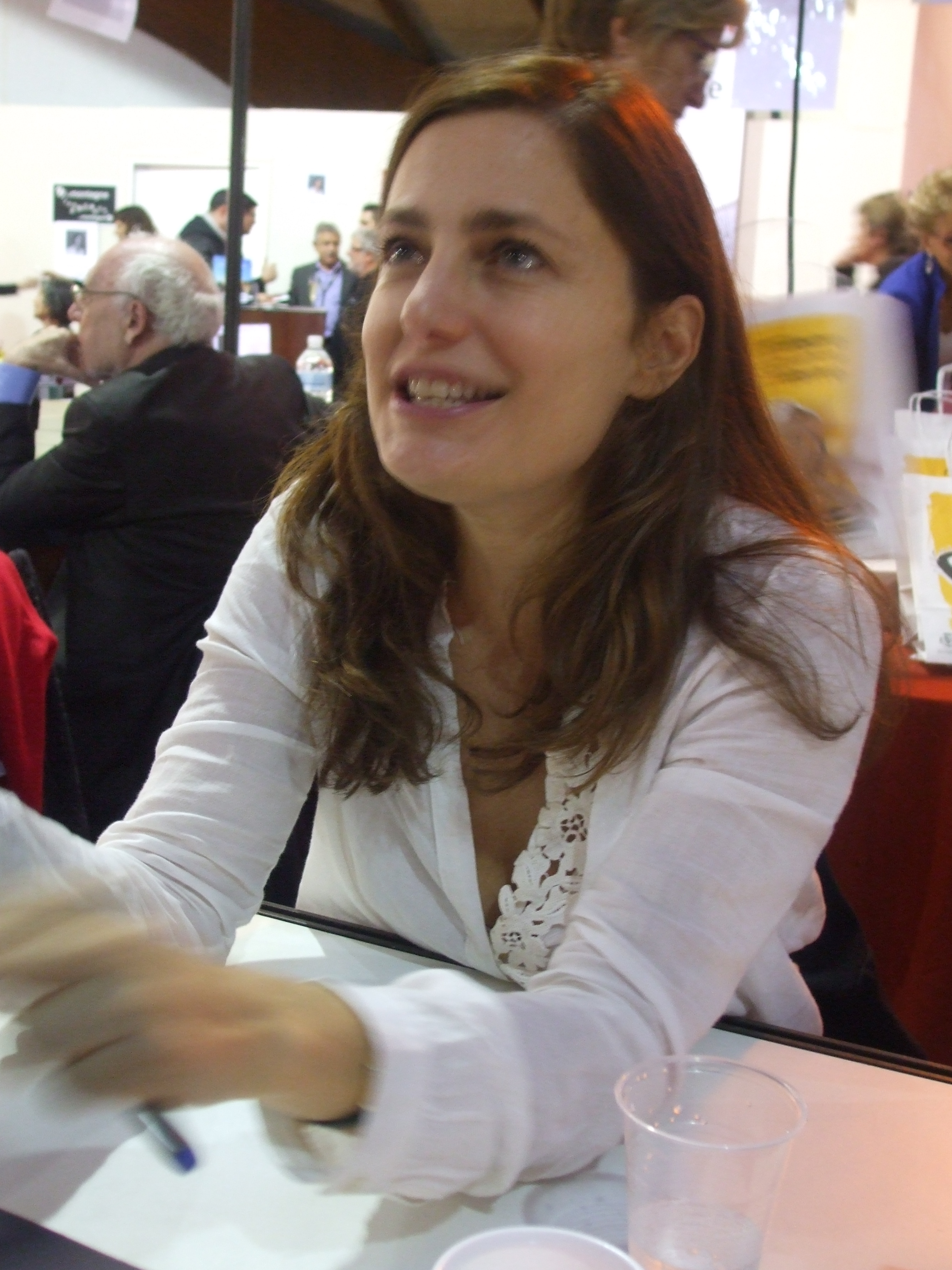 Colombe Schneck, french writer, Brive la Gaillarde book fair, France, 2010 11 05